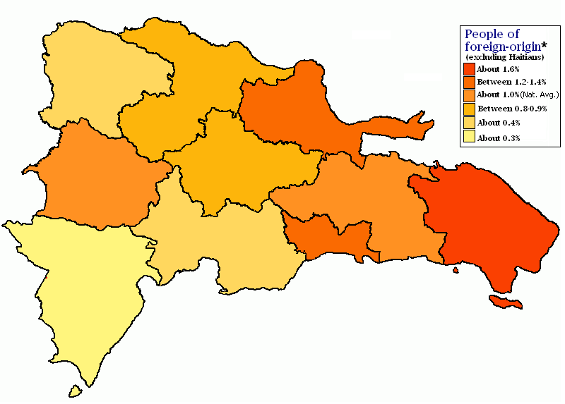 Percentage of Non-Haitian immigrants in the Dominican Republic (most of them, from the Americas and Europe), by regions.